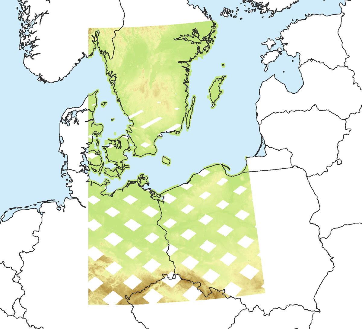 Example for coverage of a SRTM X-SAR dataset (E010N50)